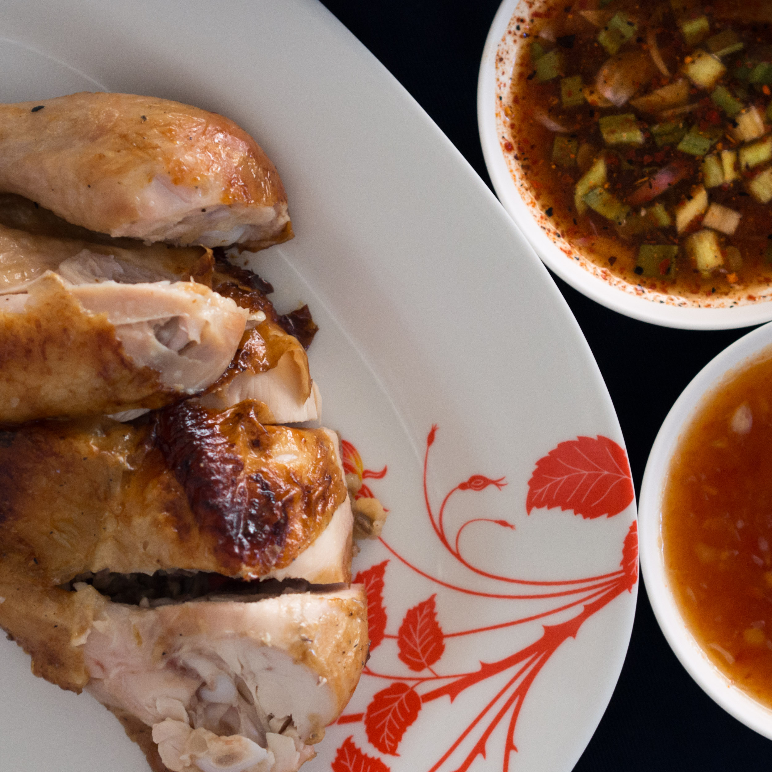 Kai yang (grilled chicken) with two types of nam chim (dipping sauces). One is nam chim chaeo, and the other nam chim kai (lit. "dipping sauce for chicken").